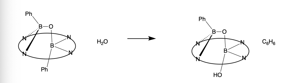 Chemical structure of Boron porphyrins johbrbr